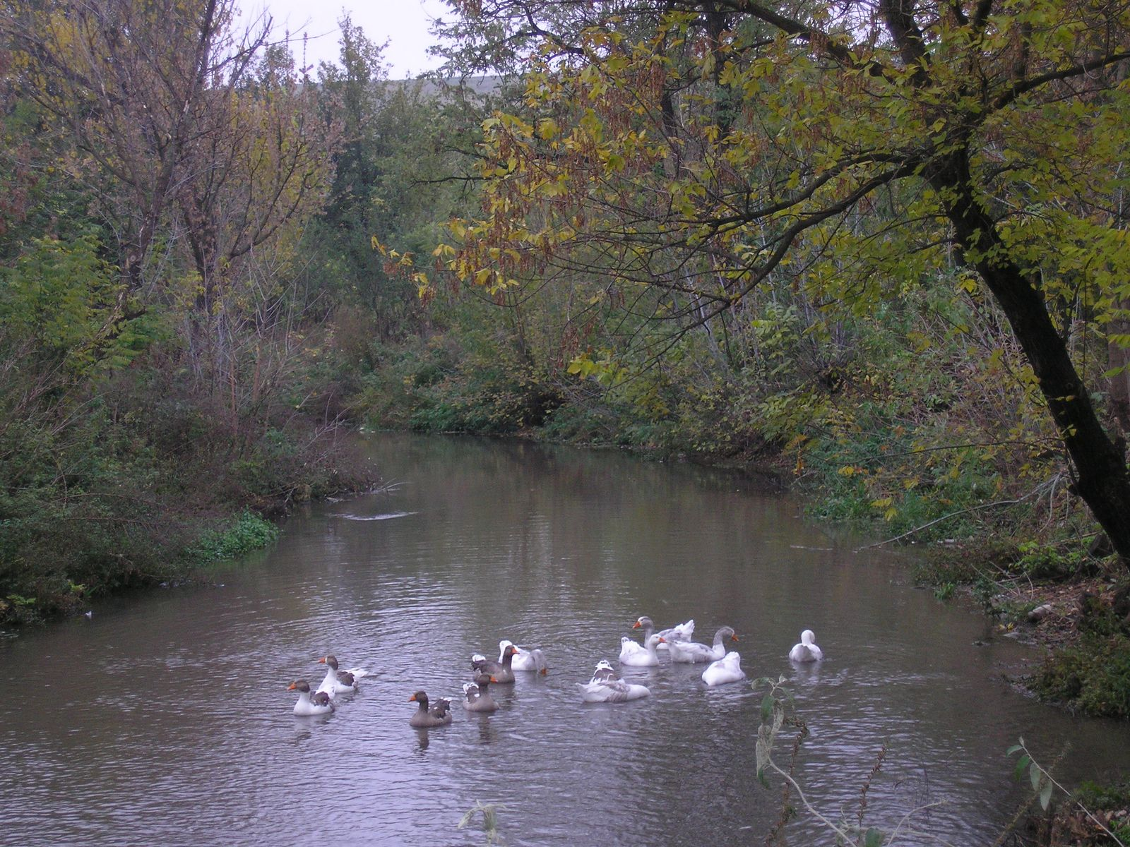 Geese in Gostilya, Bulgaria